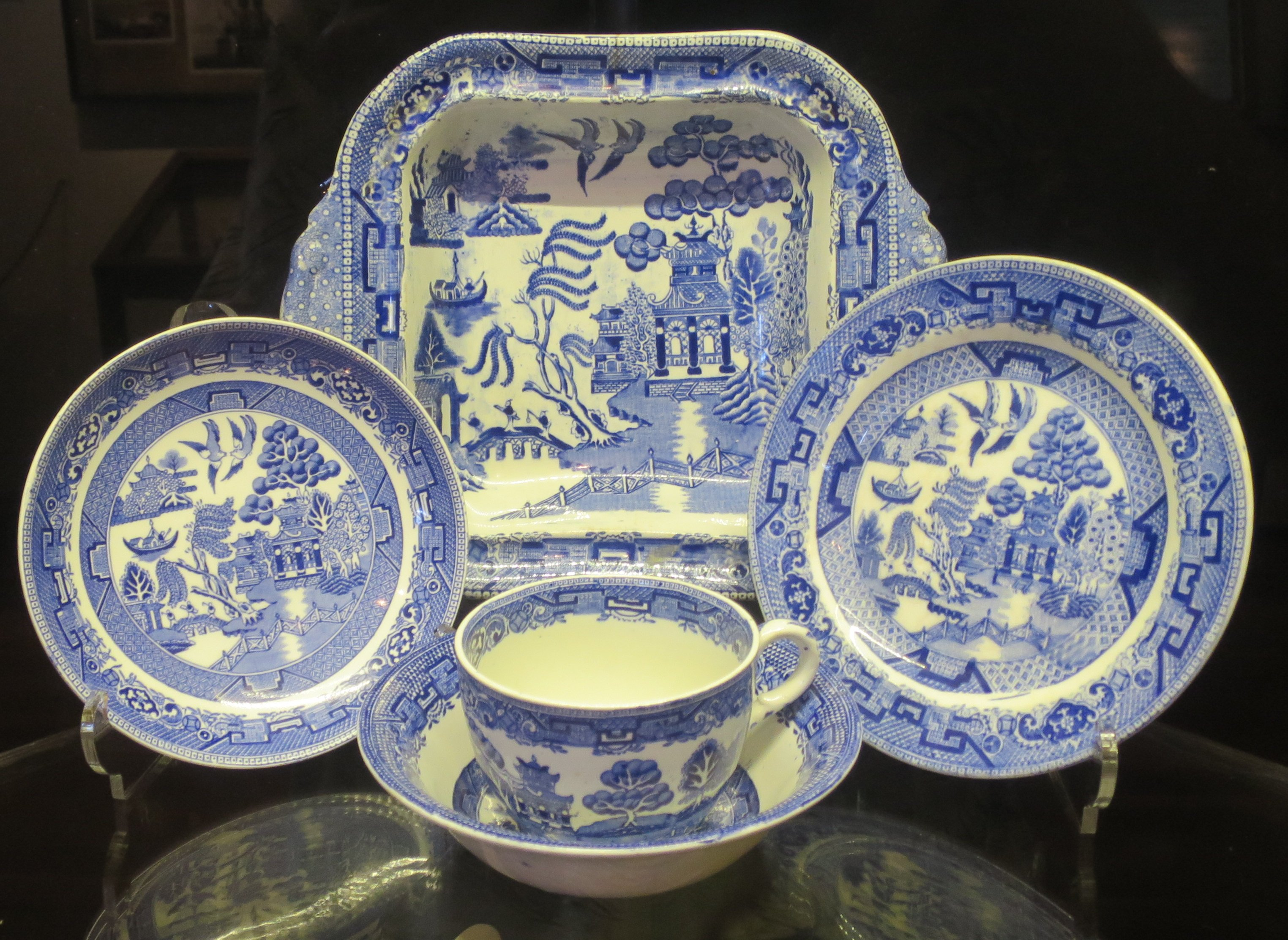 Blue Willow china, c. late 1800s, various manufactures, Lahaina Heritage Museum